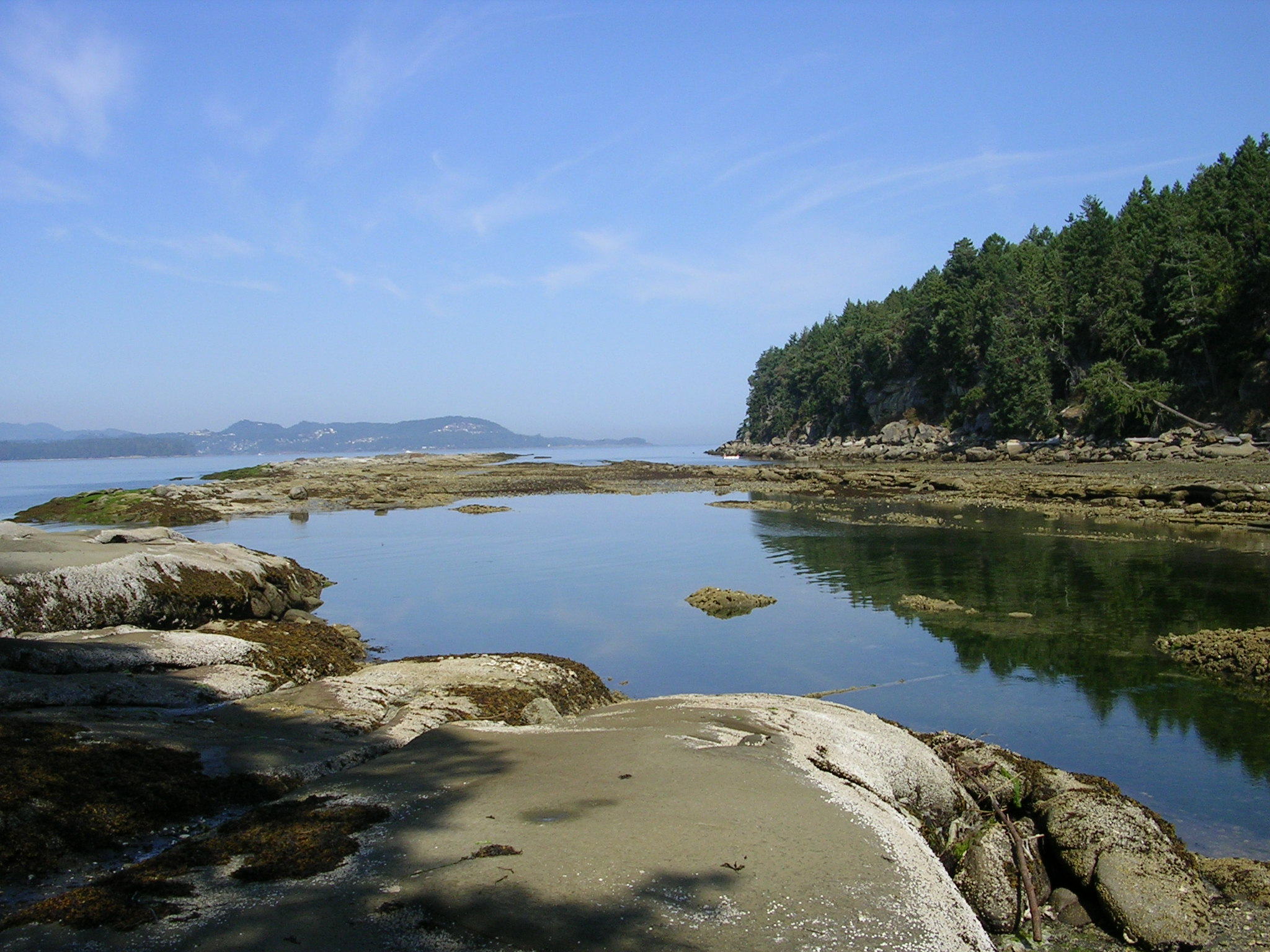 Descanso Bay on Gabriola Island, British Columbia. Taken by user:Clayoquot